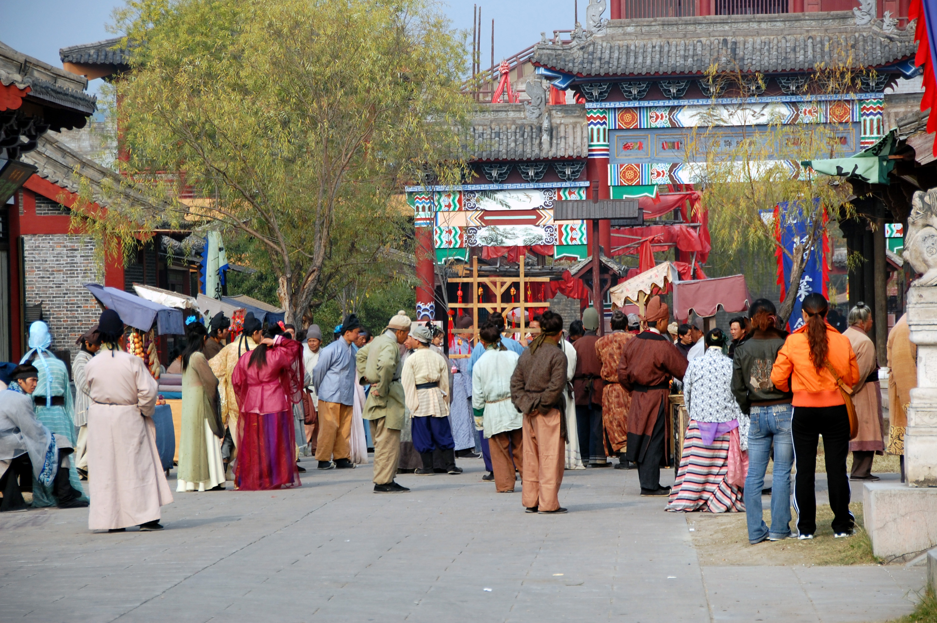 Tourists and costumed people in Hengdian World studios